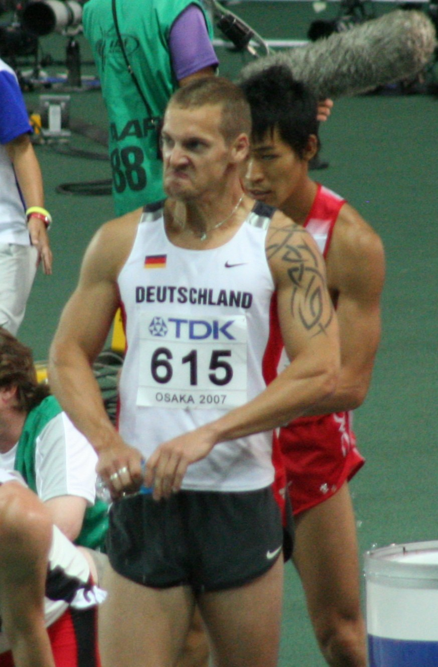 World Athletics Championships 2007 in Osaka - A seemingly unhappy German 110 metres hurdles runner Thomas Blaschek after his semifinal